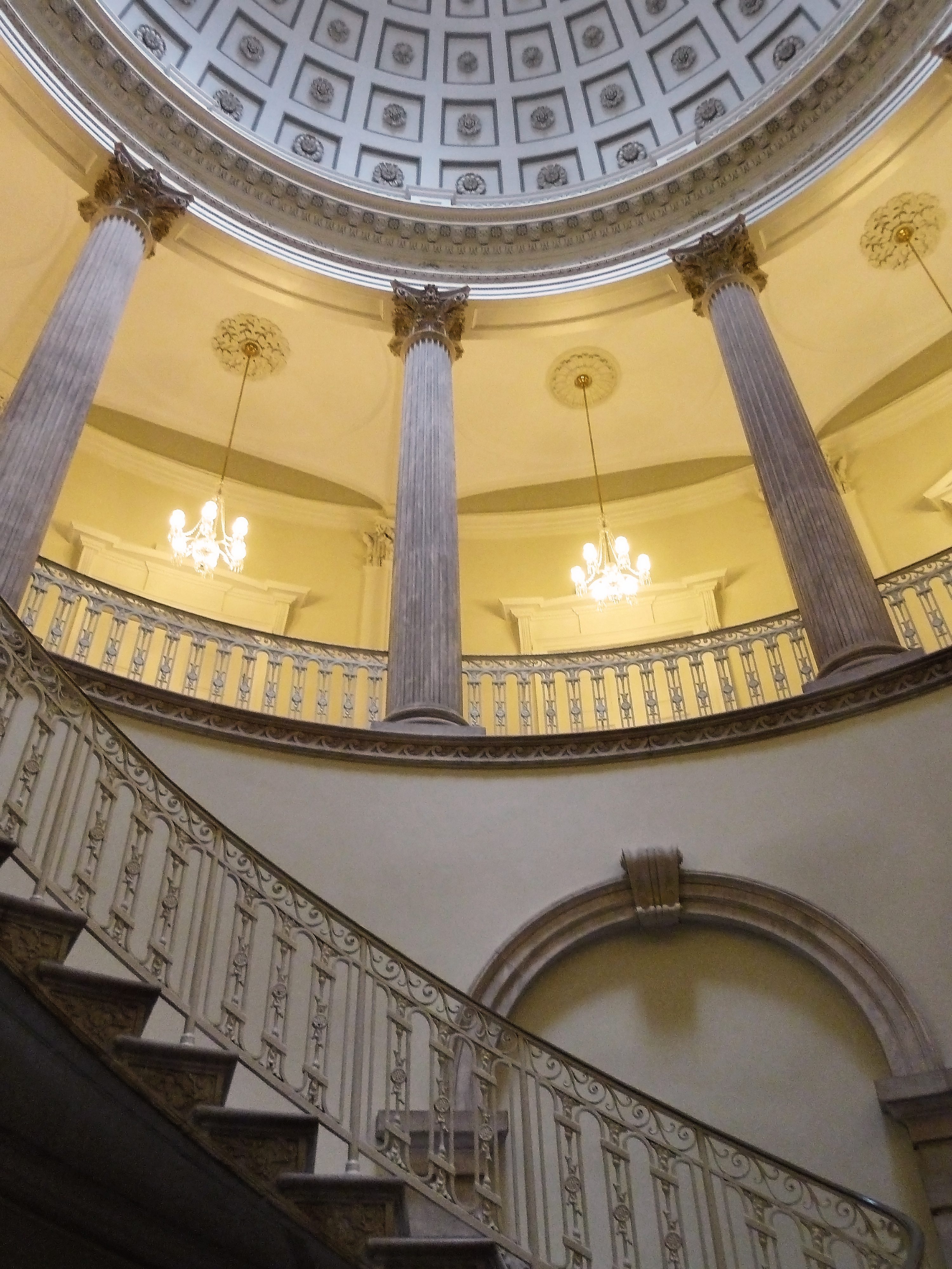 City Hall RotundaSite: City Hall